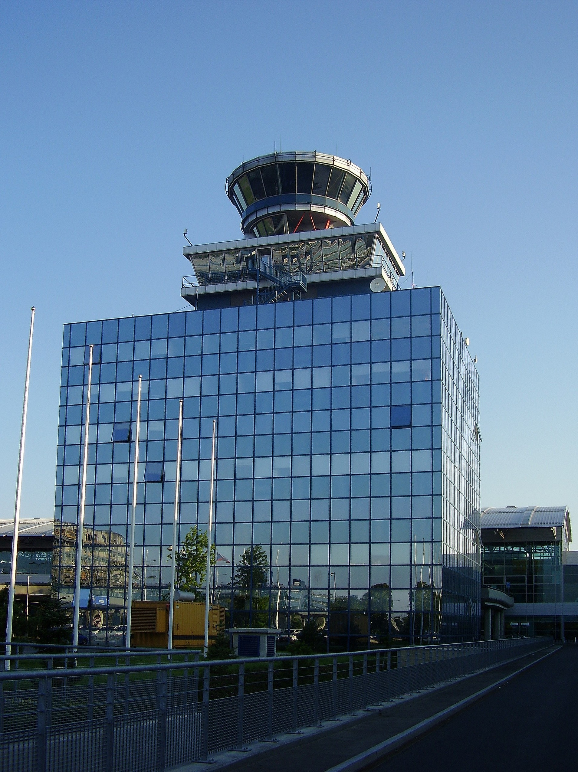 Air traffic control tower on Prague Ruzyně airport